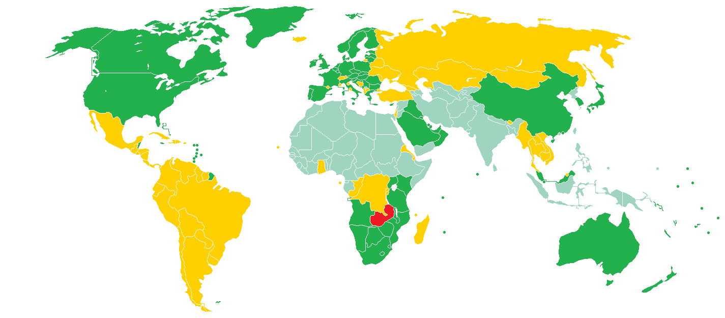 Visa policy of Zambia Zambia Visa-Free Visa-on-Arrival eVisa